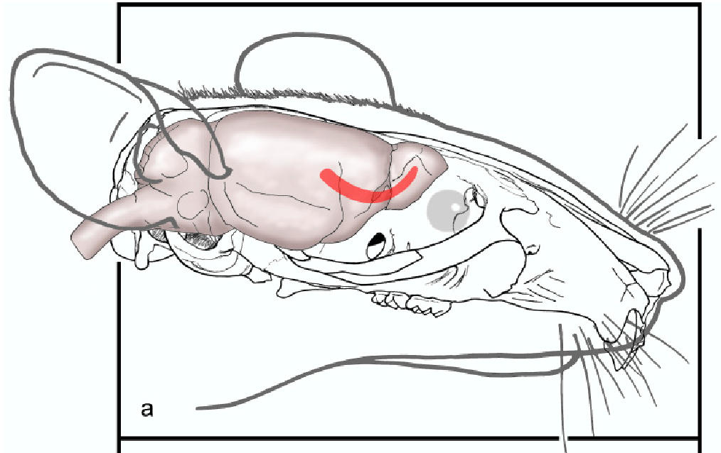 (a) Head of a mouse showing the location of the brain and the rostral migratory stream, RMS, (in red) along which newly generated neuroblasts migrate from the SVZ of the lateral ventricle into the olfactory bulb (OB). (b) The migration of newly generated neuroblasts begins at the lateral ventricle, continues along the RMS and terminated in the OB, where mature interneuron populations are generated. (c) Schematic based on electron microscopy showing the cytoarchitecture of the SVZ along the ventricle. Ependymal cells (gray) form a monolayer along the ventricle with astrocytes (green), neuroblasts (red) and transitory amplifying progenitors (TAP) (purple) comprising the SVZ. (d) Schematic showing the migration of neuroblasts along the RMS. Astrocytes (green) ensheath the migrating neuroblasts (red) and are thought to restrict and contain the neuroblasts to their specific pathway. (e) Migrating neuroblasts enter the OB, migrate radially and give rise to granule or periglomerular cells. Lennington et al. Reproductive Biology and Endocrinology 2003 1:99